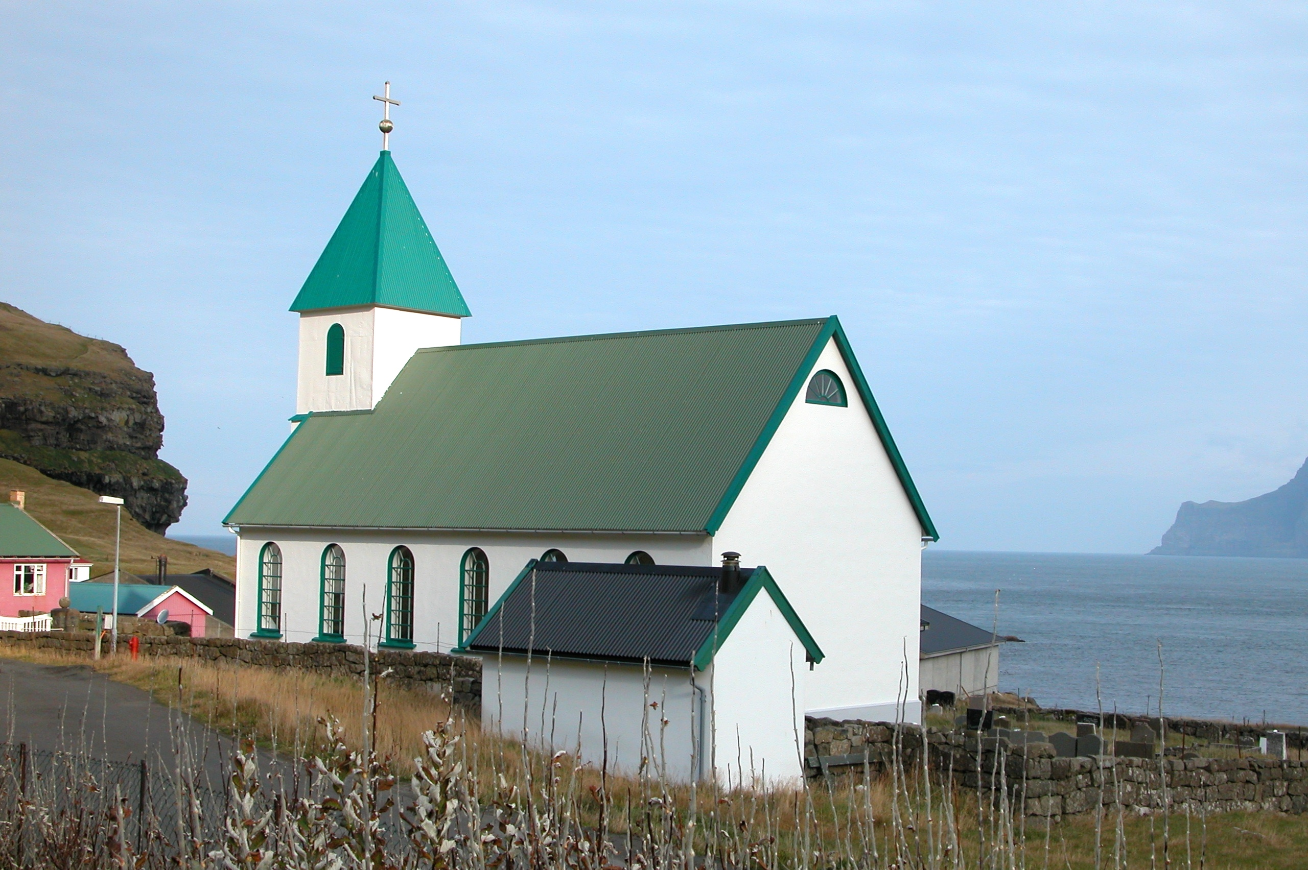 Church of Gjógv in Eysturoy, Faroe Islands.